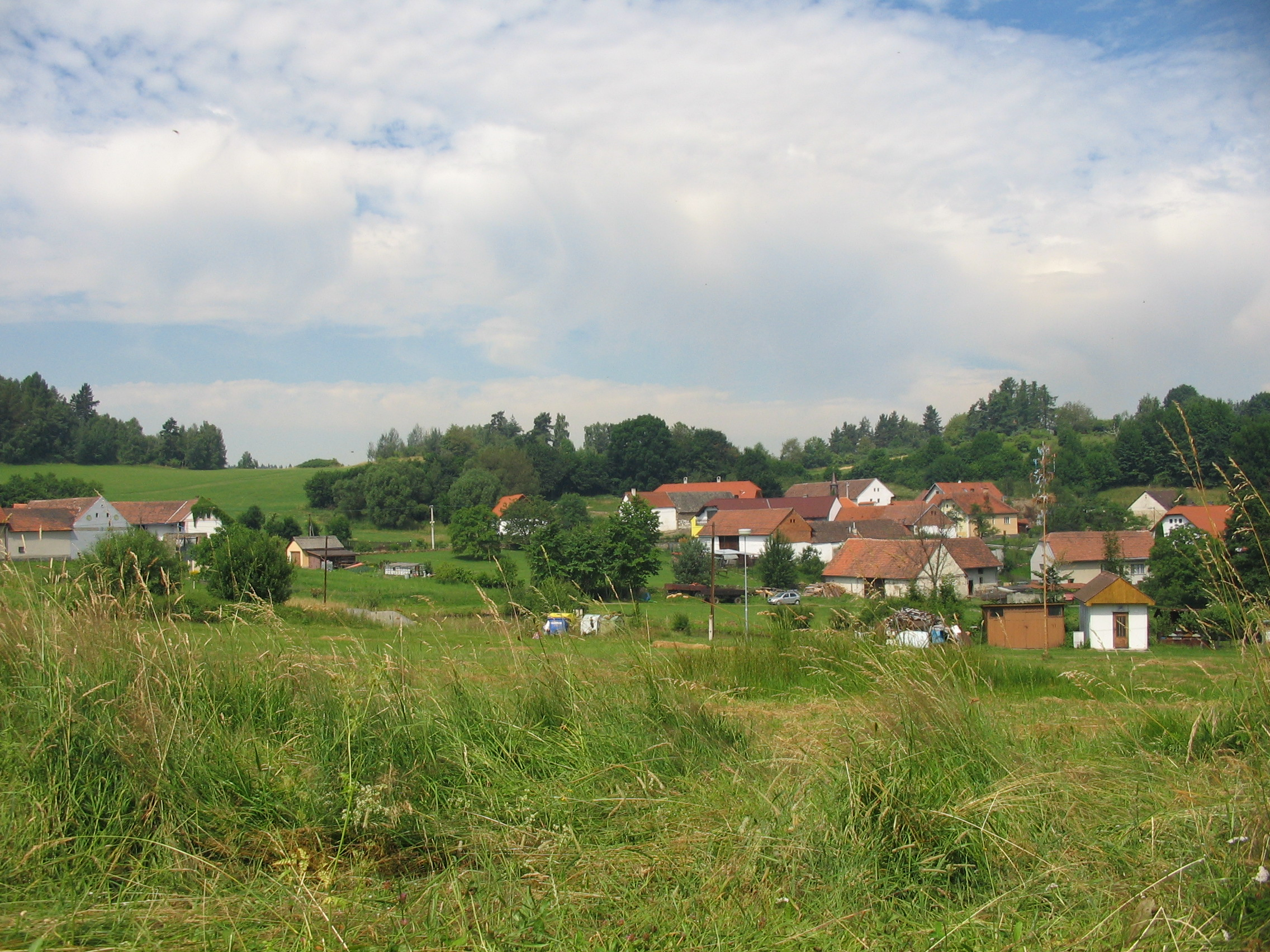 Western part of Švejcarova Lhota, Strakonice District, Czech Republic